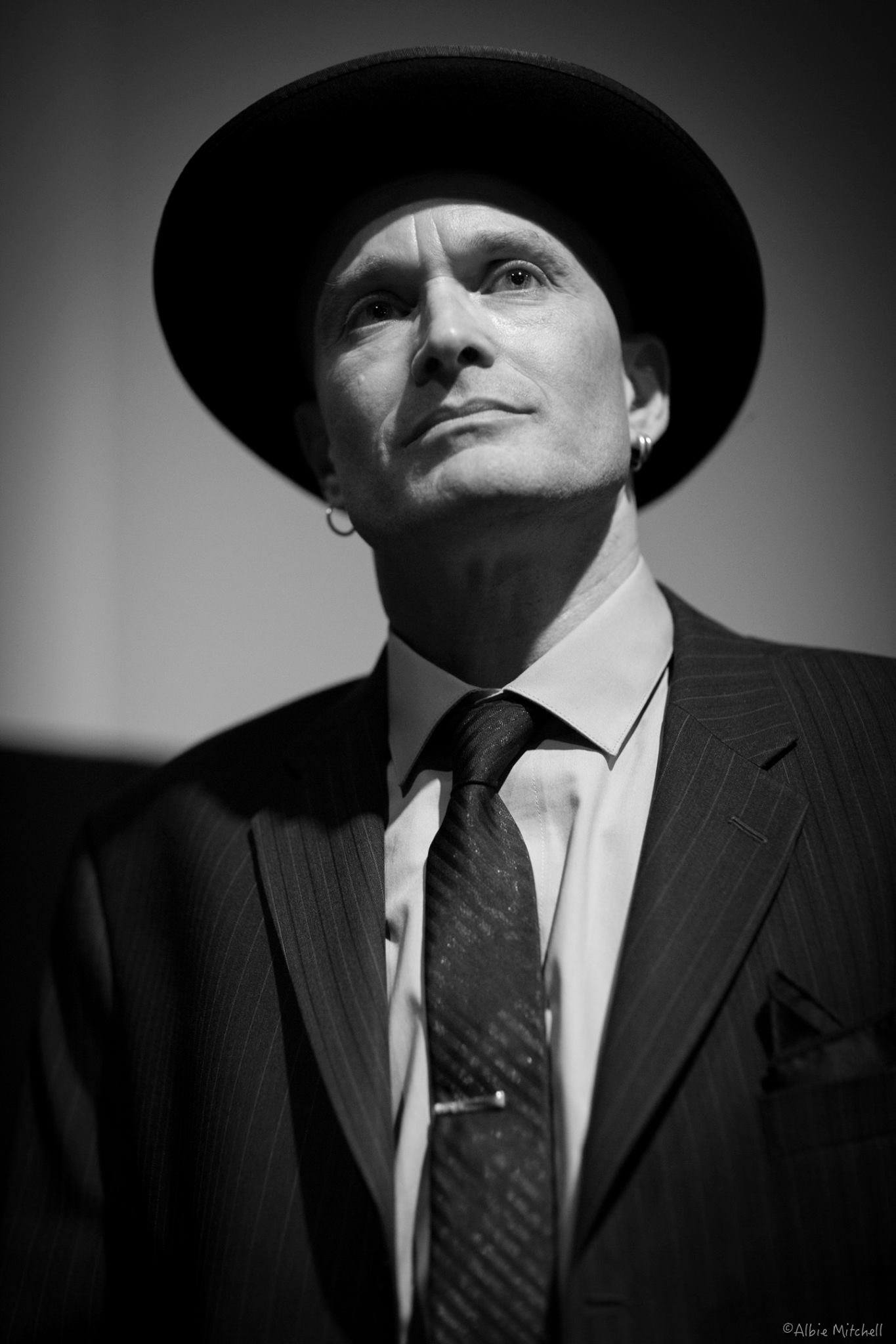 Drew Stone (photo by Joseph Schuyler)